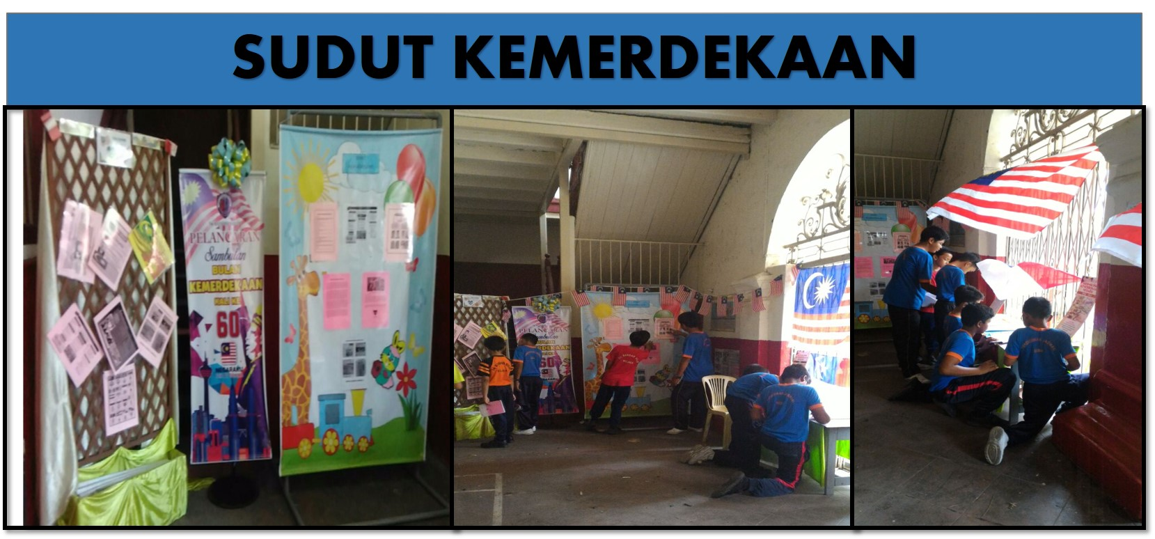 sudut kemderkeaan